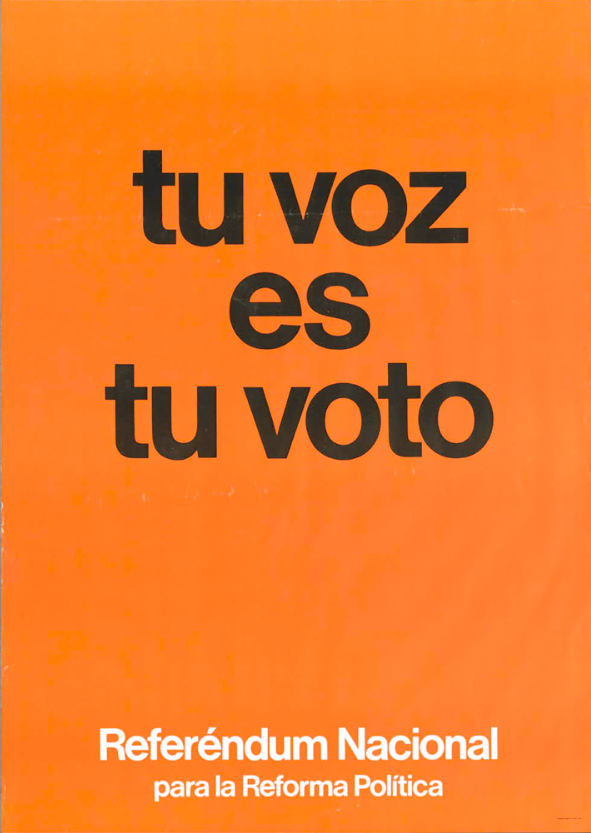 Billboard of the Referendum for the Political Reform Bill of 1976 in Spain.